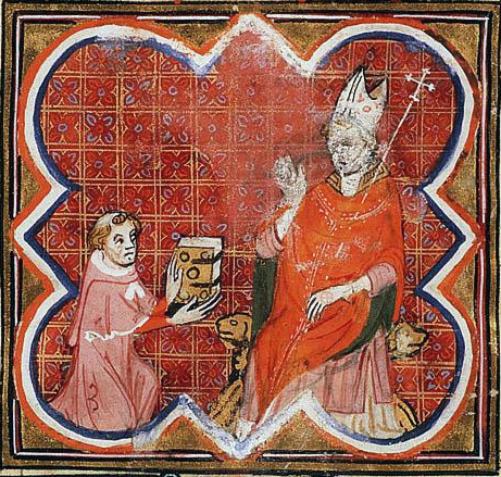 Petrus Comestor presents his book to Archbishop Guillaume of Sens Contents: Guiard des Moulins, Bible Historiale Complétée Place of origin, date: Paris; c. 1370-1380 Material: Vellum, ff. 444, 391x272 (281x180) mm, 58 lines, littera textualis, Binding: early 19th-century red leather; gilt (1814) Decoration: 2 two-column miniatures (150/130x180 mm); 26 column miniatures (75/45x85/80 mm); decorated initials with border decoration (ff. 1r, 2r, 2v, 37r, 59r, etc.); penwork initials throughout Provenance: presented in 1665 by Maria Ignatia Lorraine d'Elbeuf (1629-1679), daughter of Charles II of Lorraine, to an unknown institution, probably the Jesuits of the Collège Louis-le-Grand (Collège de Clermont) at Paris; purchased in 1764 as part of this collection (Clermont-cat. of 1764, no. 768) by Gerard Meerman (1722-1771) of Rotterdam, later The Hague; sold in 1770 by Meerman at the sale of P. and A. de la Court van der Voort at N. van Daalen, The Hague (cat. 19-28 Febr., pt. 3, p. 5 no. 59). Presented in 1814 by the Groningen Guild of Bookprintersand -sellers to King William I of The Netherlands, and transferred to the KB